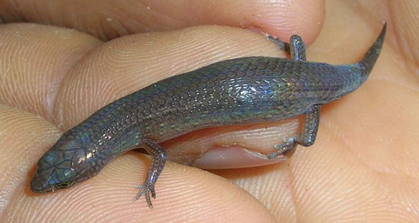 Travancore Cat Skink (Ristella travancorica) Photo by L. Shyamal, Wynaad, 2006